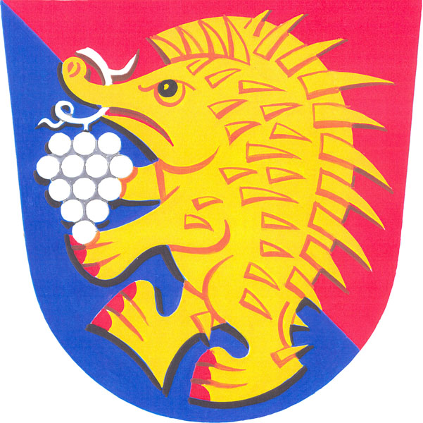 Municipal coat of arms of Ježov village, Hodonín District, Czech Republic.